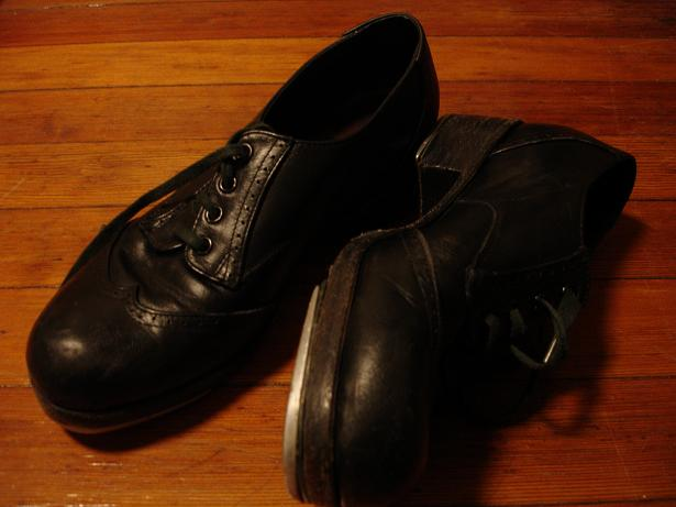 Tap dancing shoes from flickr by Maria.